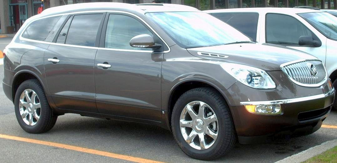 2008 Buick Enclave photographed in Montreal, Quebec, Canada.